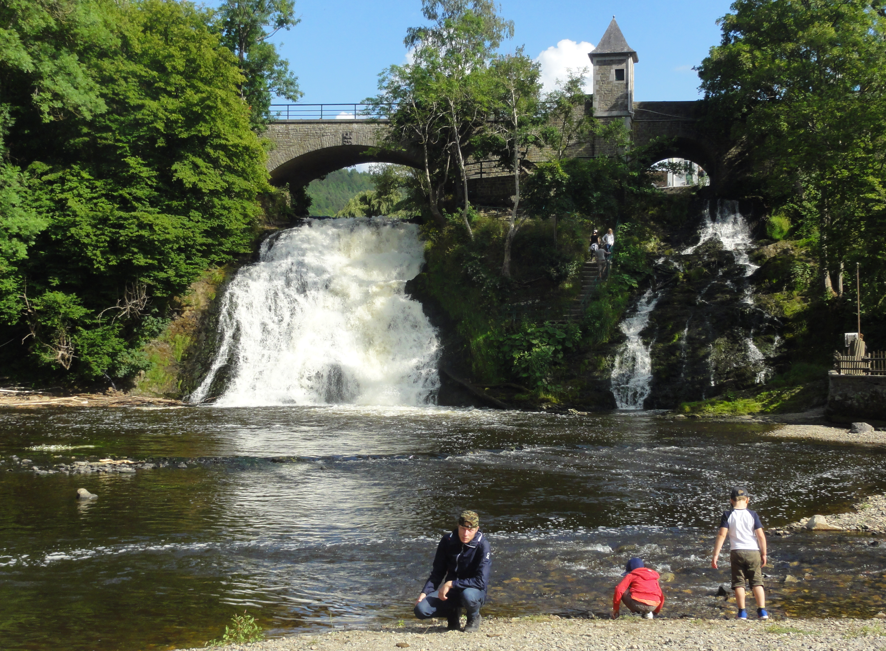 Depicted place: Plopsa Coo